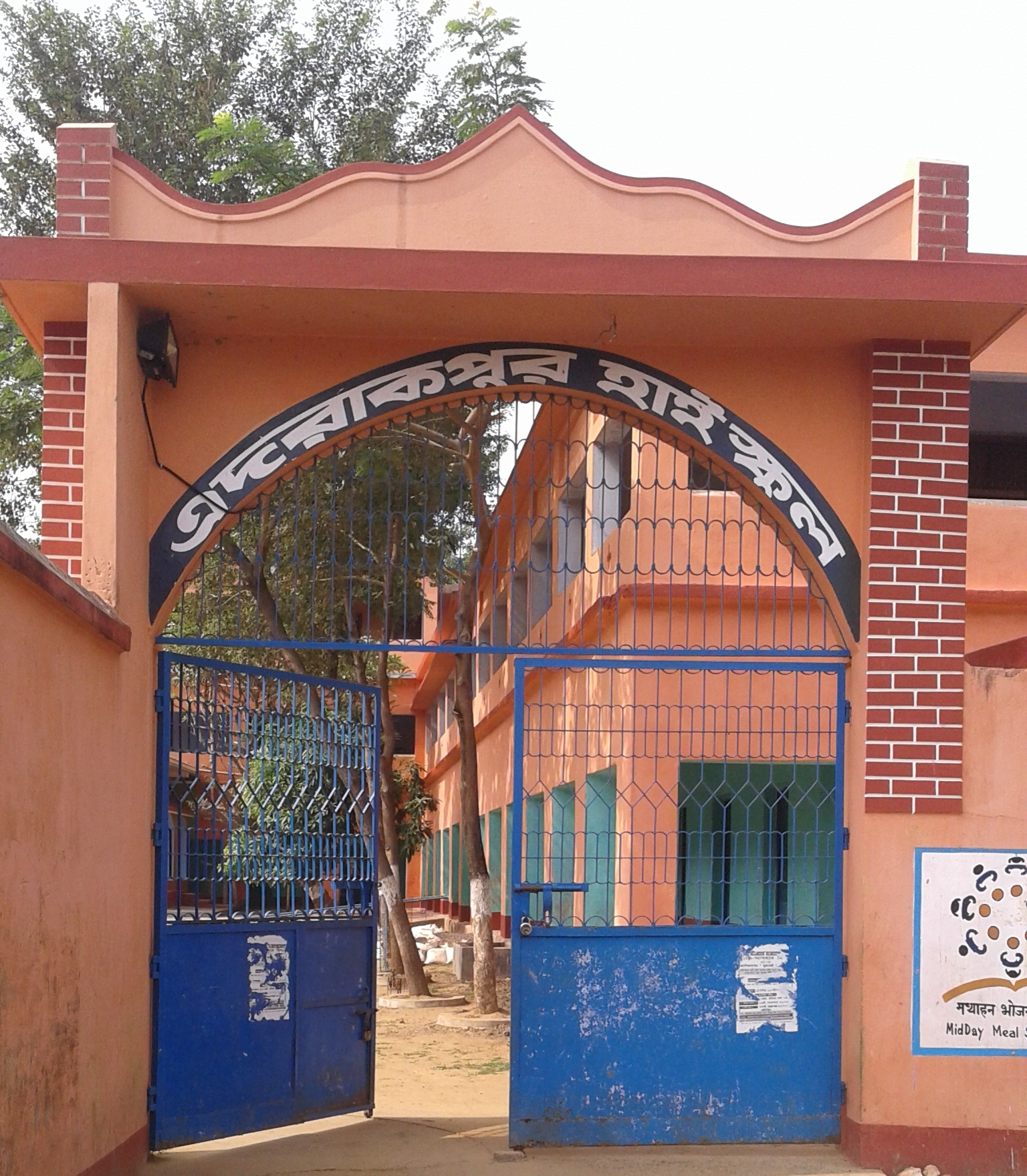 This is Edrakpur High School Gate. this school very nice school